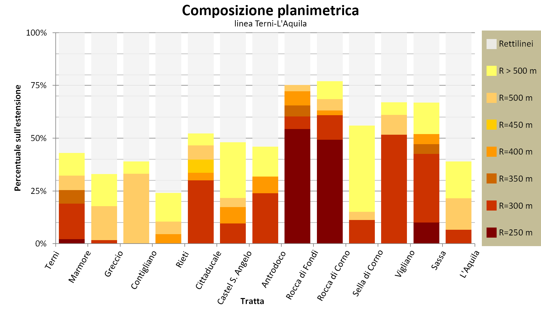 Graph showing the different planimetric composition of each section (between one station and the next) of the Terni-Rieti-L'Aquila railway (in central Italy), measured as the percentage of stretches with a certain radius of curvature on the total length of the stretch. Straight stretches (infinite radius) Curves with radius over 500 meters Curves with a radius of 500 meters Curves with a radius of 450 meters Curves with a radius of 400 meters Curves with a radius of 350 meters Curves with a radius of 300 meters Curves with a radius of 250 meters